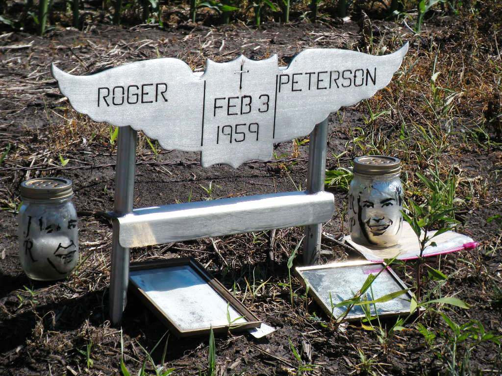 Memorial to Roger Peterson. Holley's Pilot